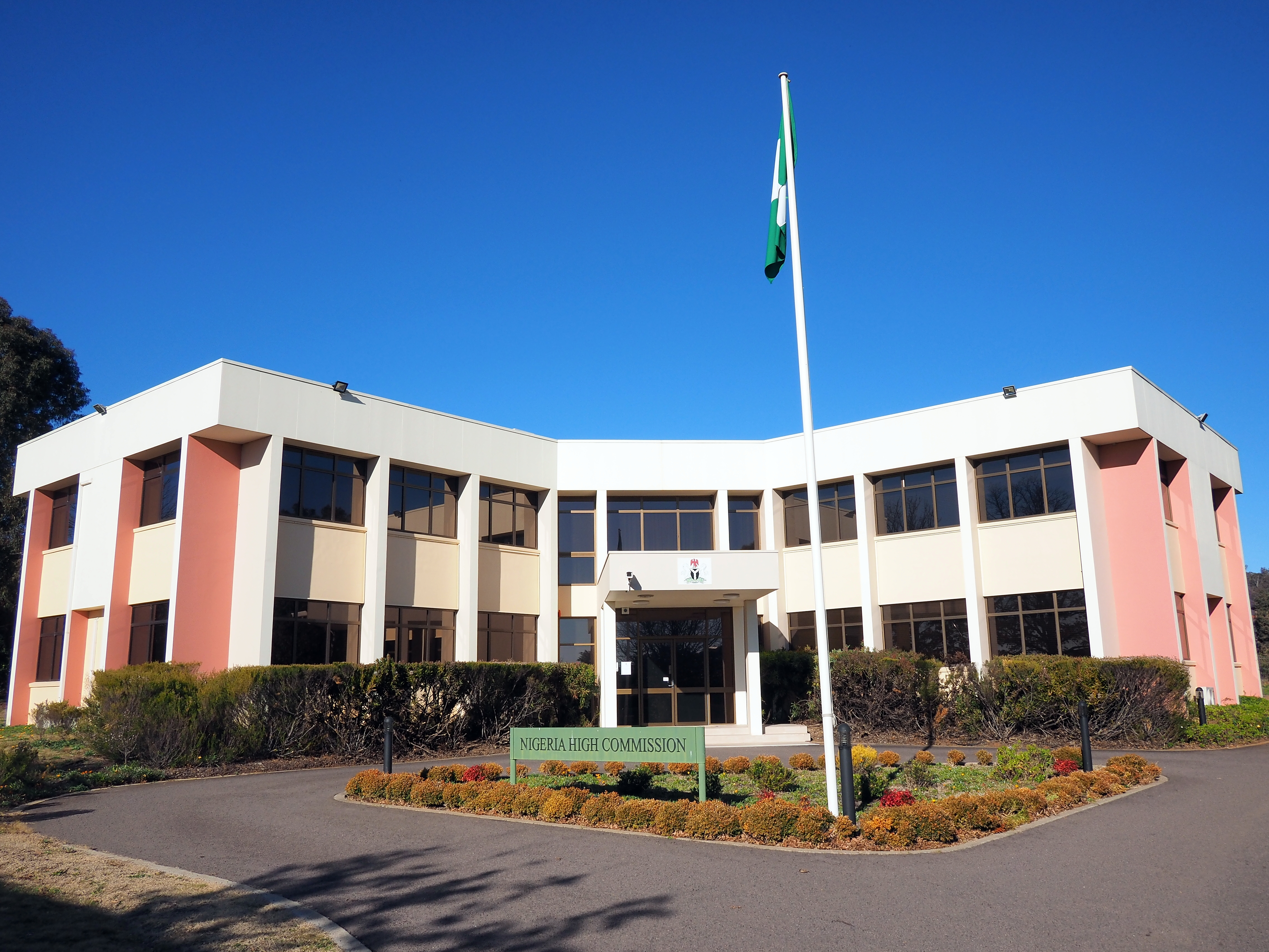 The High Commission of Nigeria to Australia in Canberra